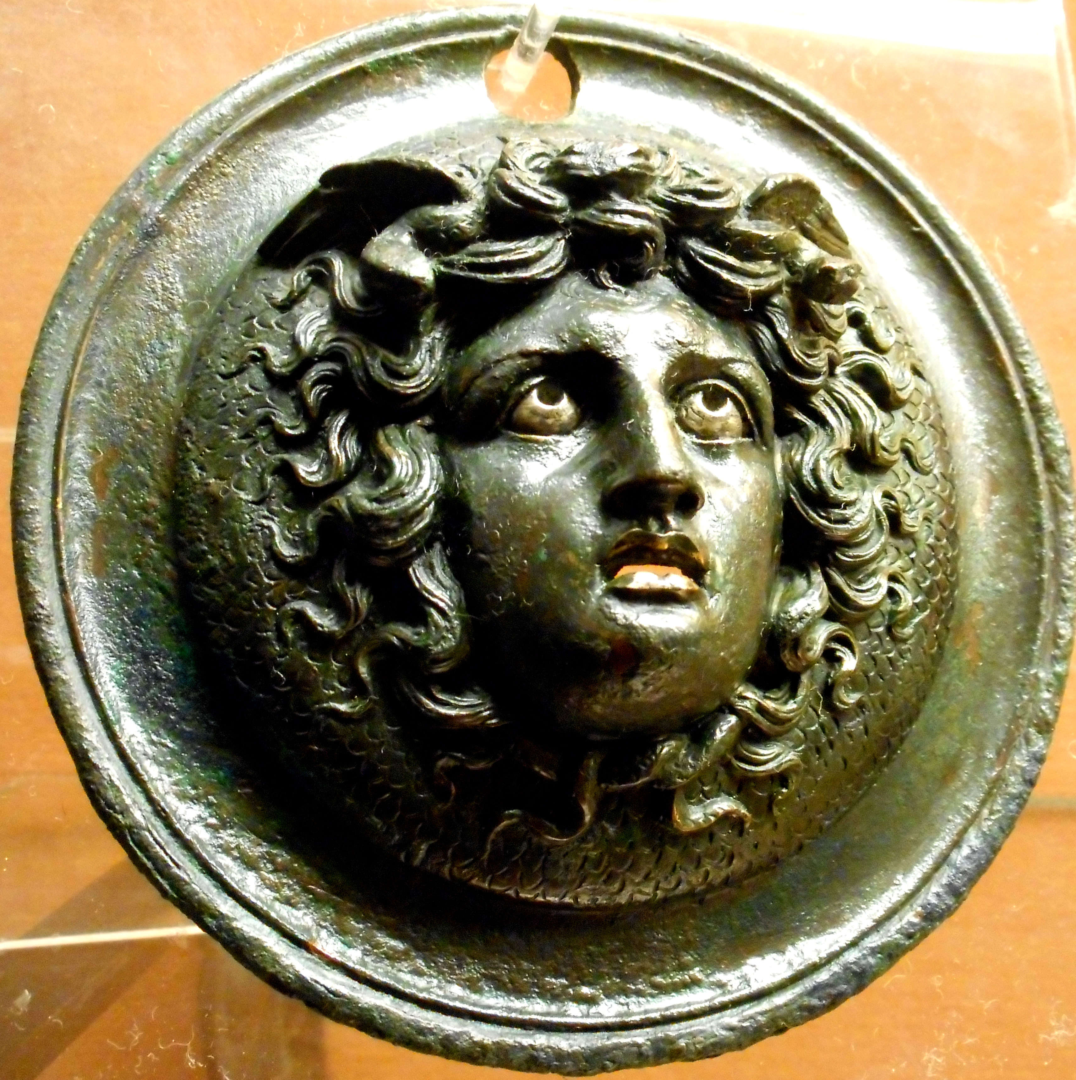 "Medusa or Gorgon, with ivory eyes and copper lips" - bronze stud for furniture - Vesuvian area, buried by Vesuvius' eruption on 79 AD - Naples, Archaeological Museum.